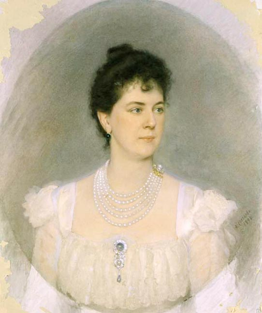 Portrait of the educator, collector and artist Princess Maria Tenisheva (1858-1928